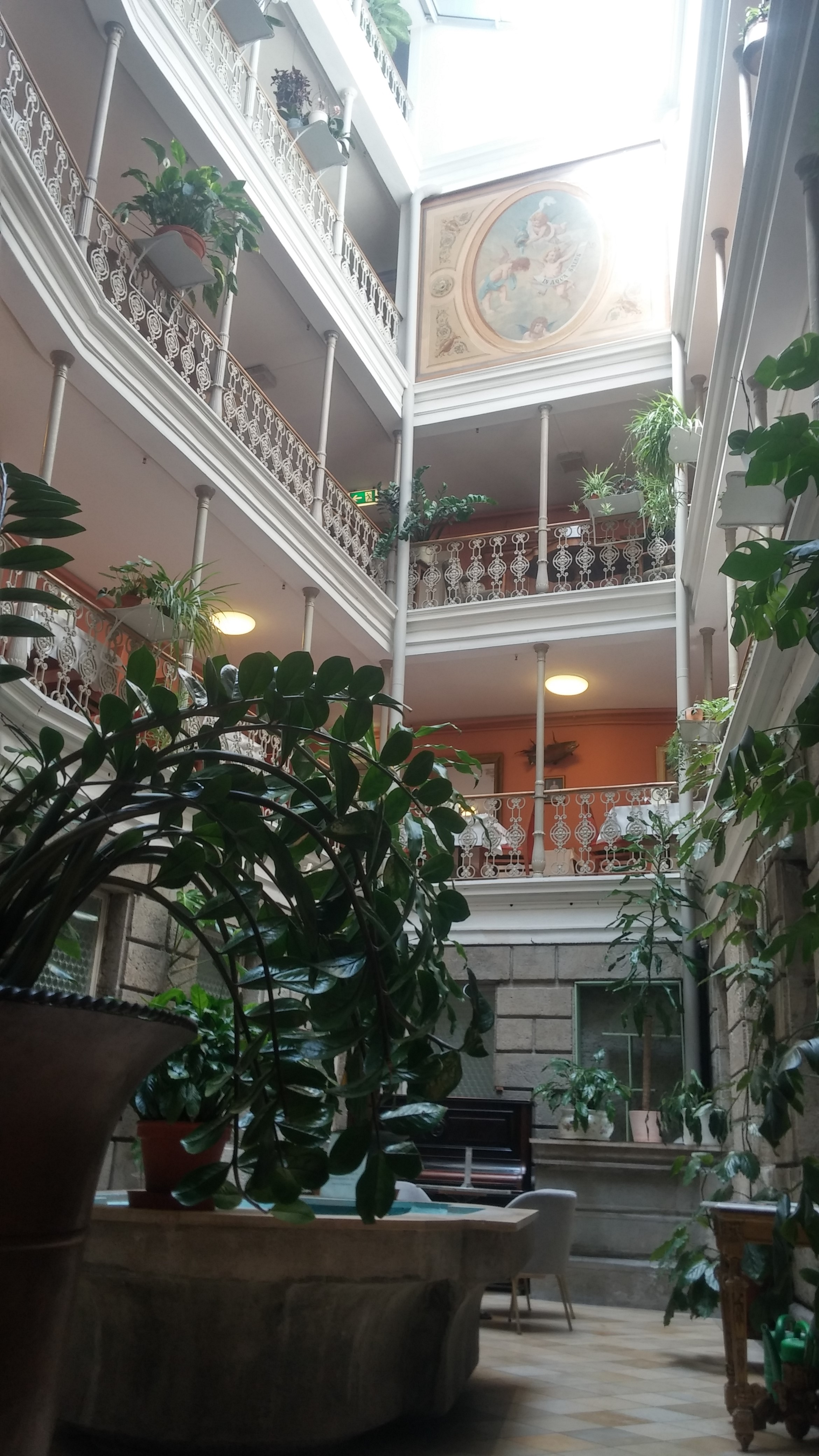 Atrium of hotel Blume in Baden, Aargau, Switzerland